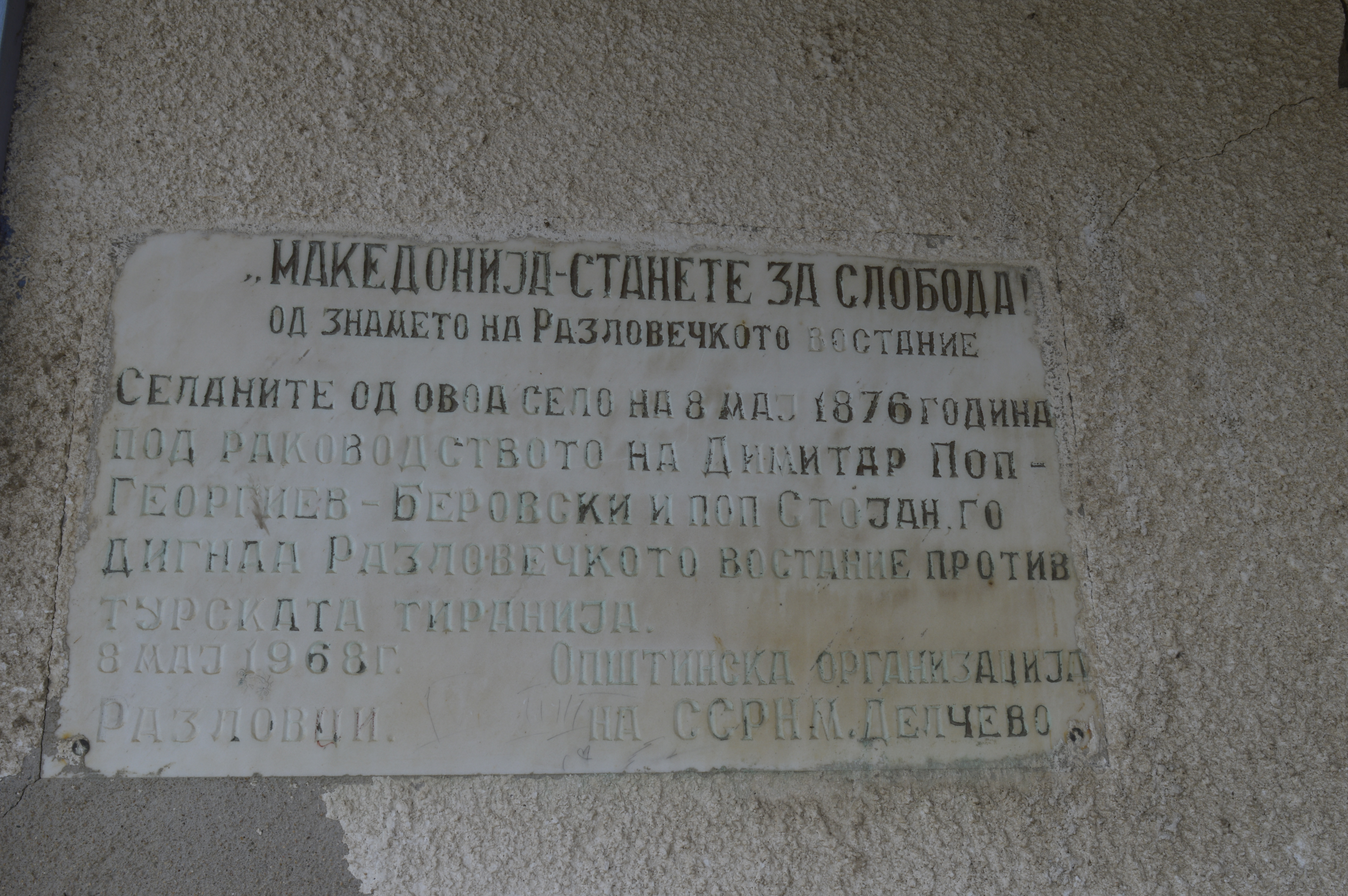 Board about Razlovci Uprising in the village Razlovci